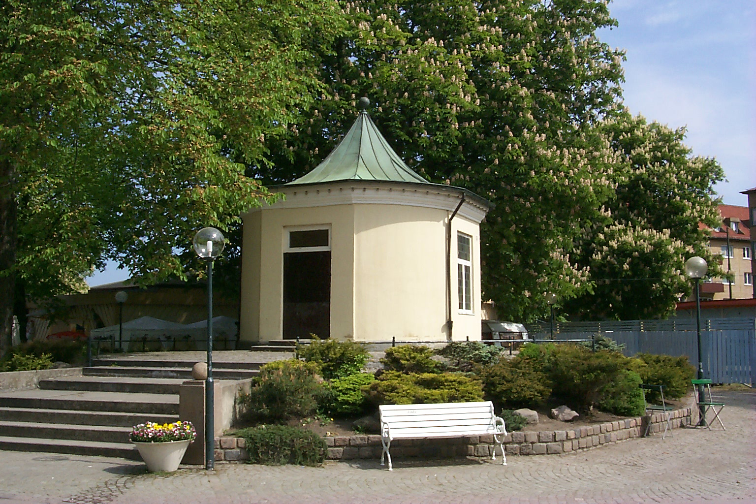 Folkets Park i Malmö Sweden